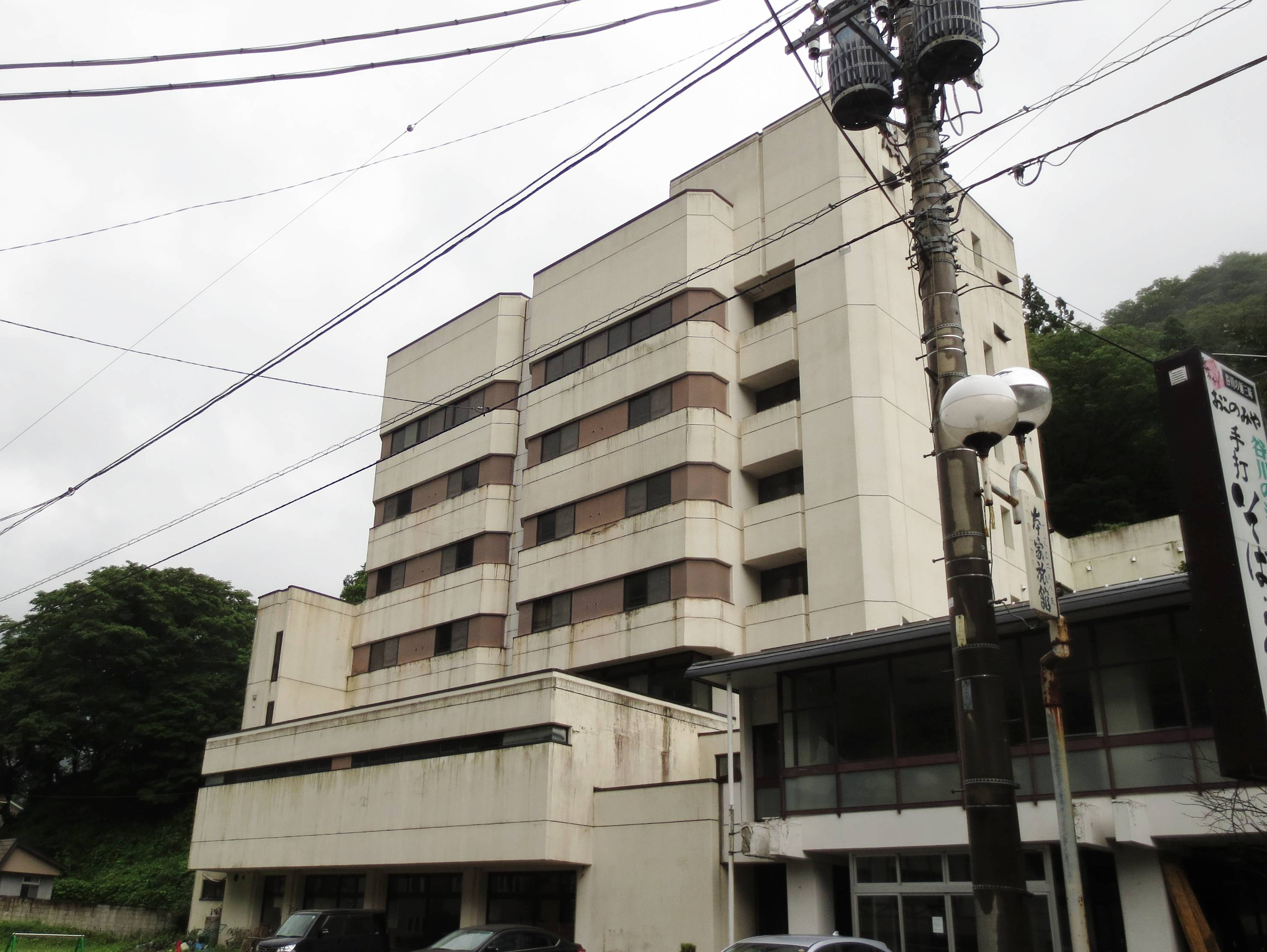 Yubiso Onsen Honke Ryokan (Minakami, Gunma).